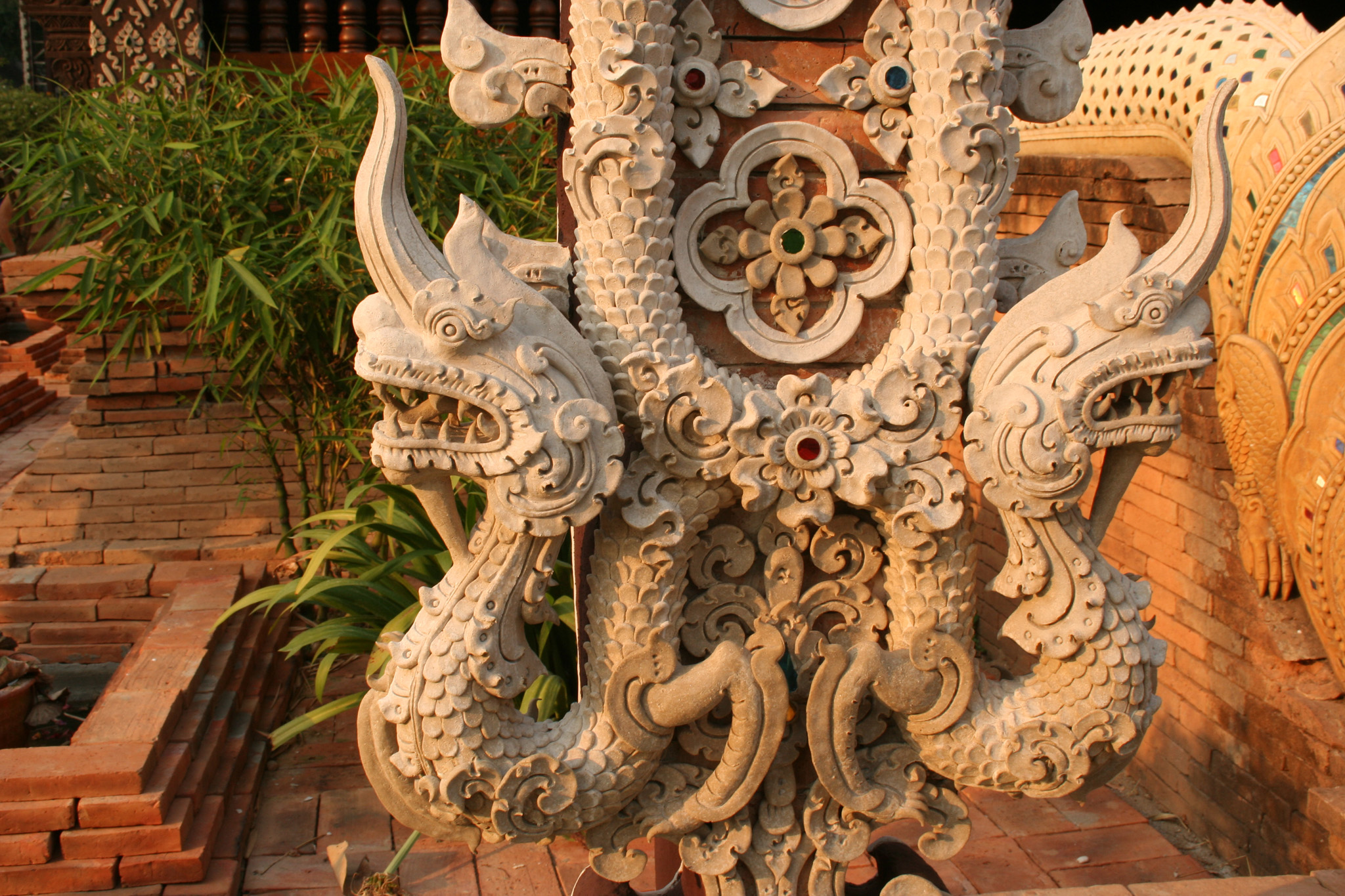 Elaborately carved Naga sculptures in the Wat Lok Molee, Chiang Mai, Thailand